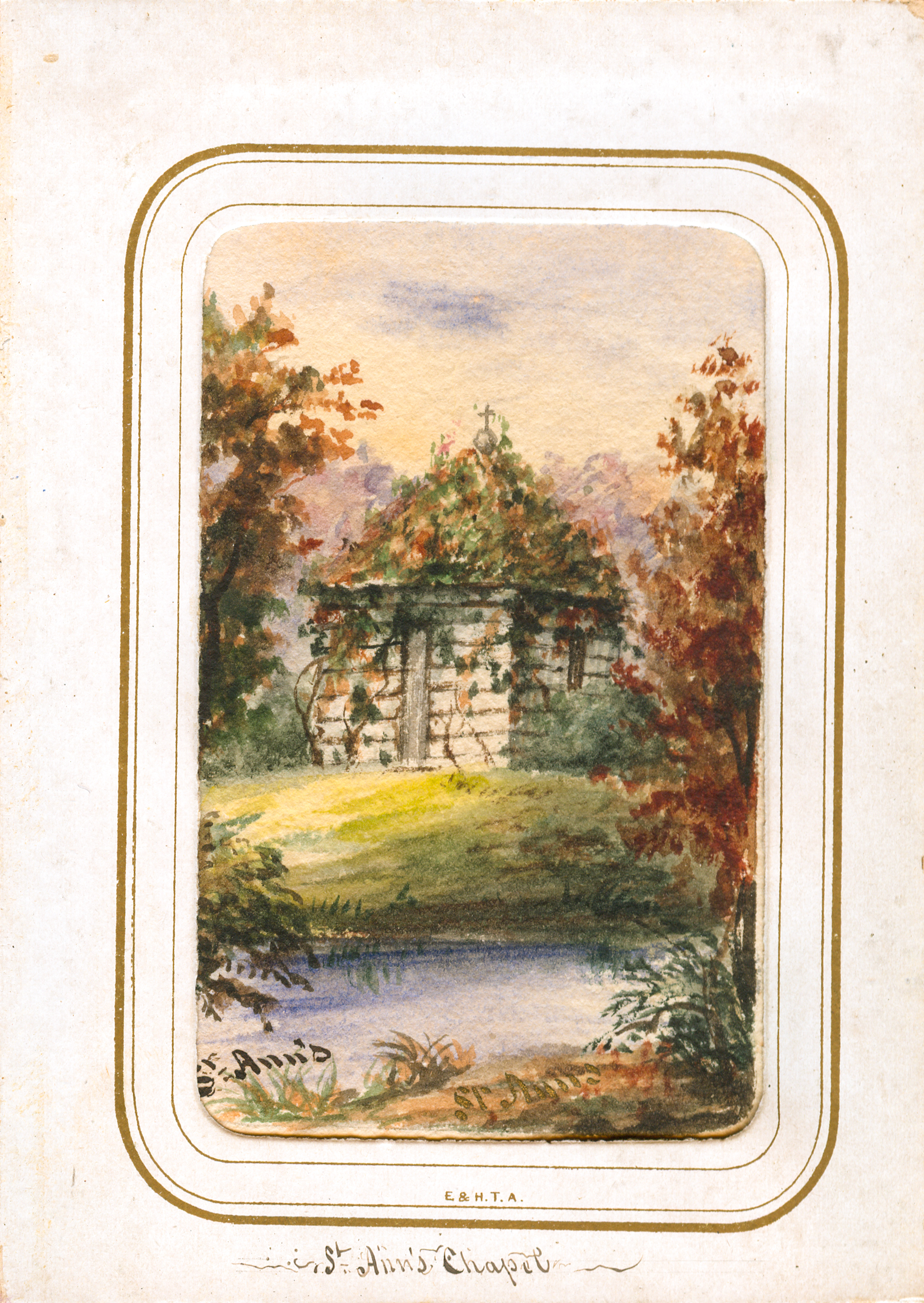 Inside an album of works by Mother Mary Cecilia Bailly (1815-1898), second general superior of the Sisters of Providence of Saint Mary-of-the-Woods, Indiana. This watercolor depicts the first St. Ann's Chapel, a log structure which was replaced in 1875.